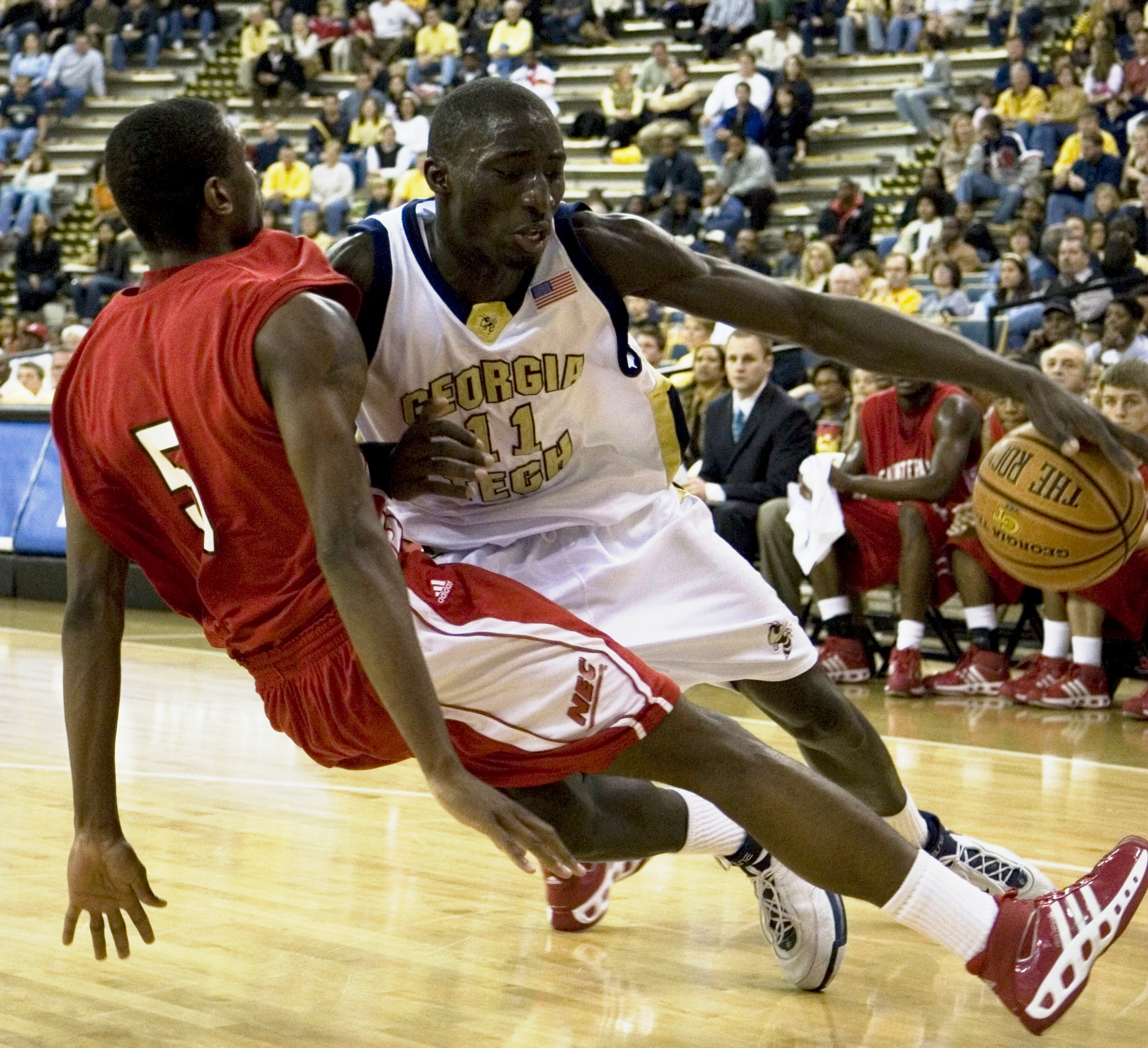 Georgia Tech basketball player Mouhammad Faye.